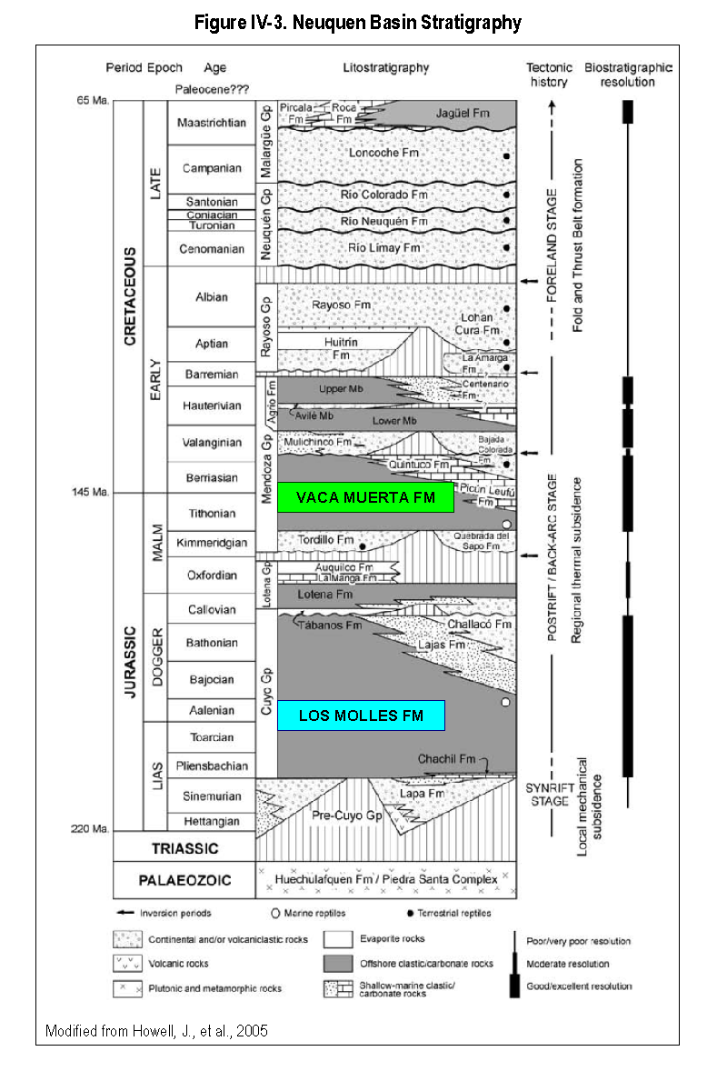 Stratigraphy of the Vaca Muerta Shale. Title:Neuquen Basin Stratigraphy